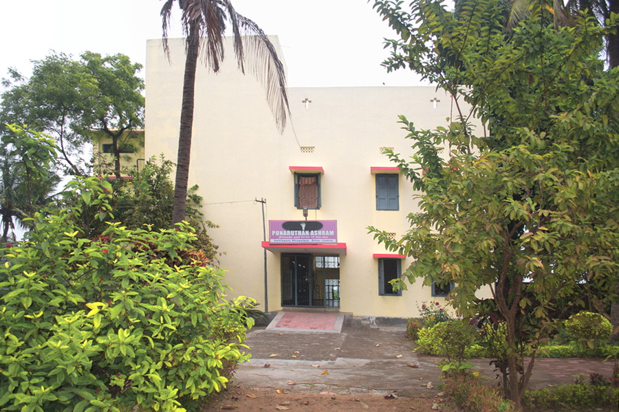 Psychiatric hospital run by the Diocese of Bhagalpur